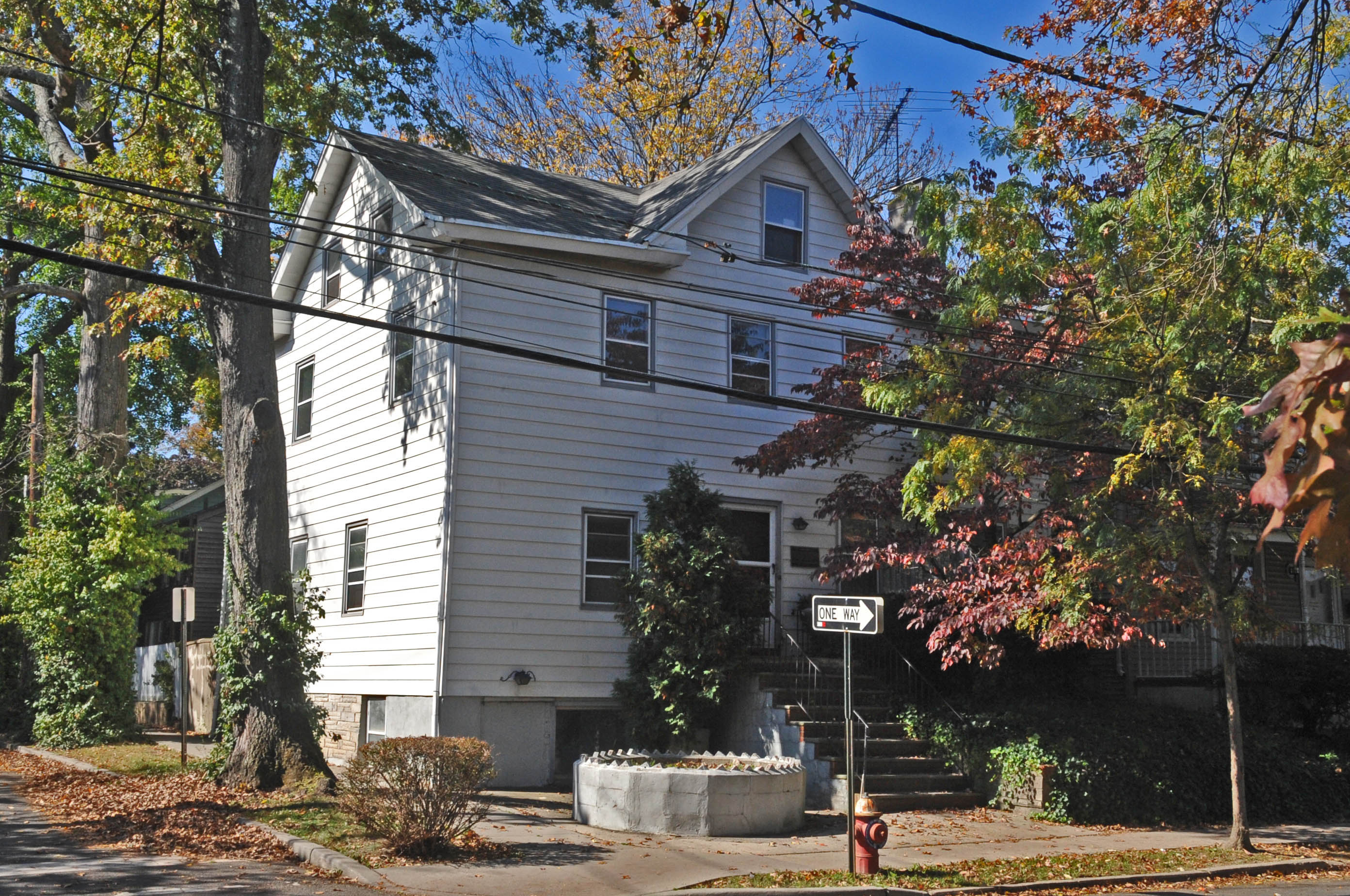 ROBESON WAS BORN HERE IN 1898 AS THE YOUNGEST CHILD OF REVEREND WILLIAM ROBESON, PASTOR OF THE WITHERSPOON PRESBYTERIAN CHIURCH